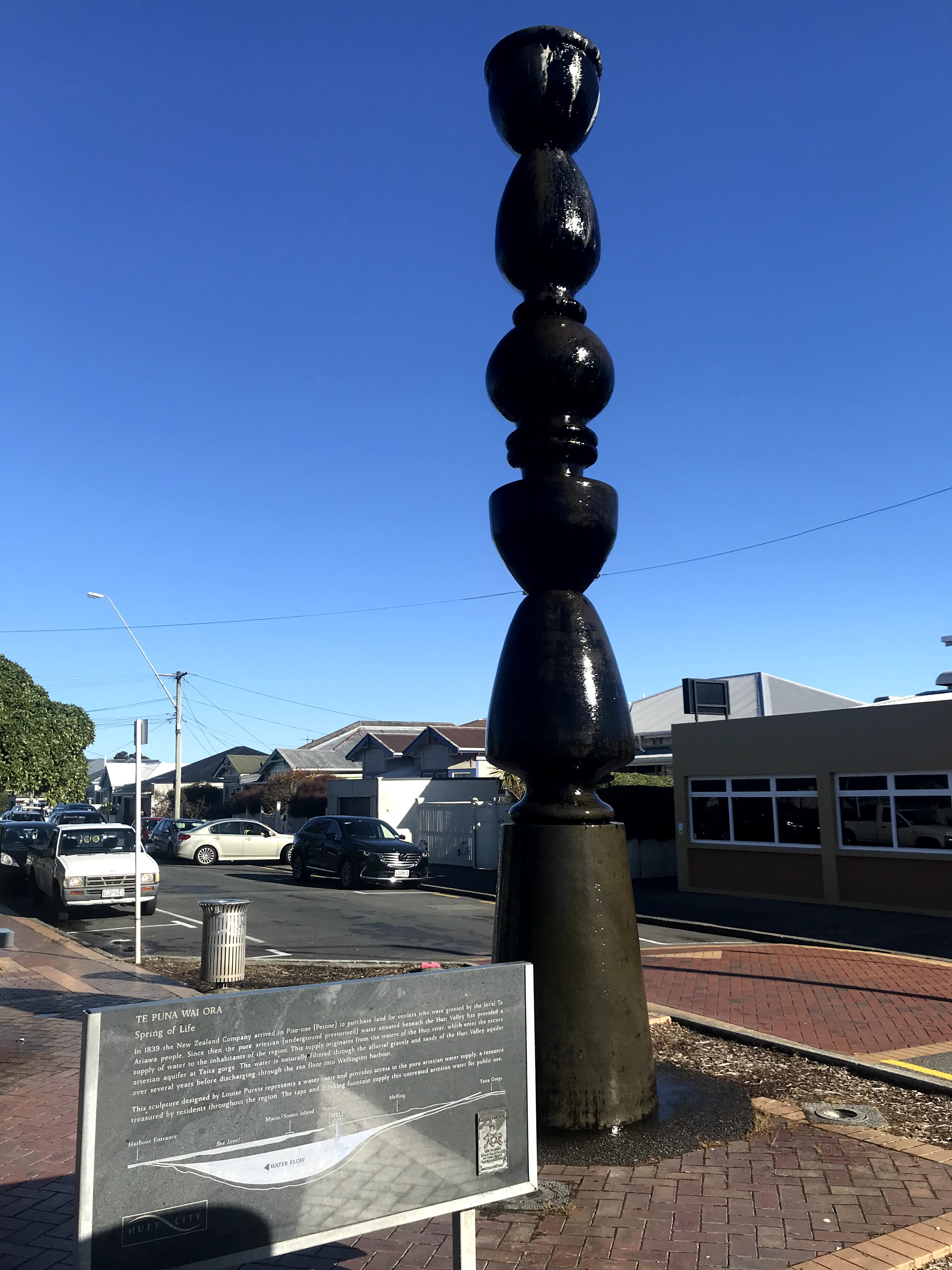 Artesian water fountain sculpture in Buick Street, Petone, Wellington